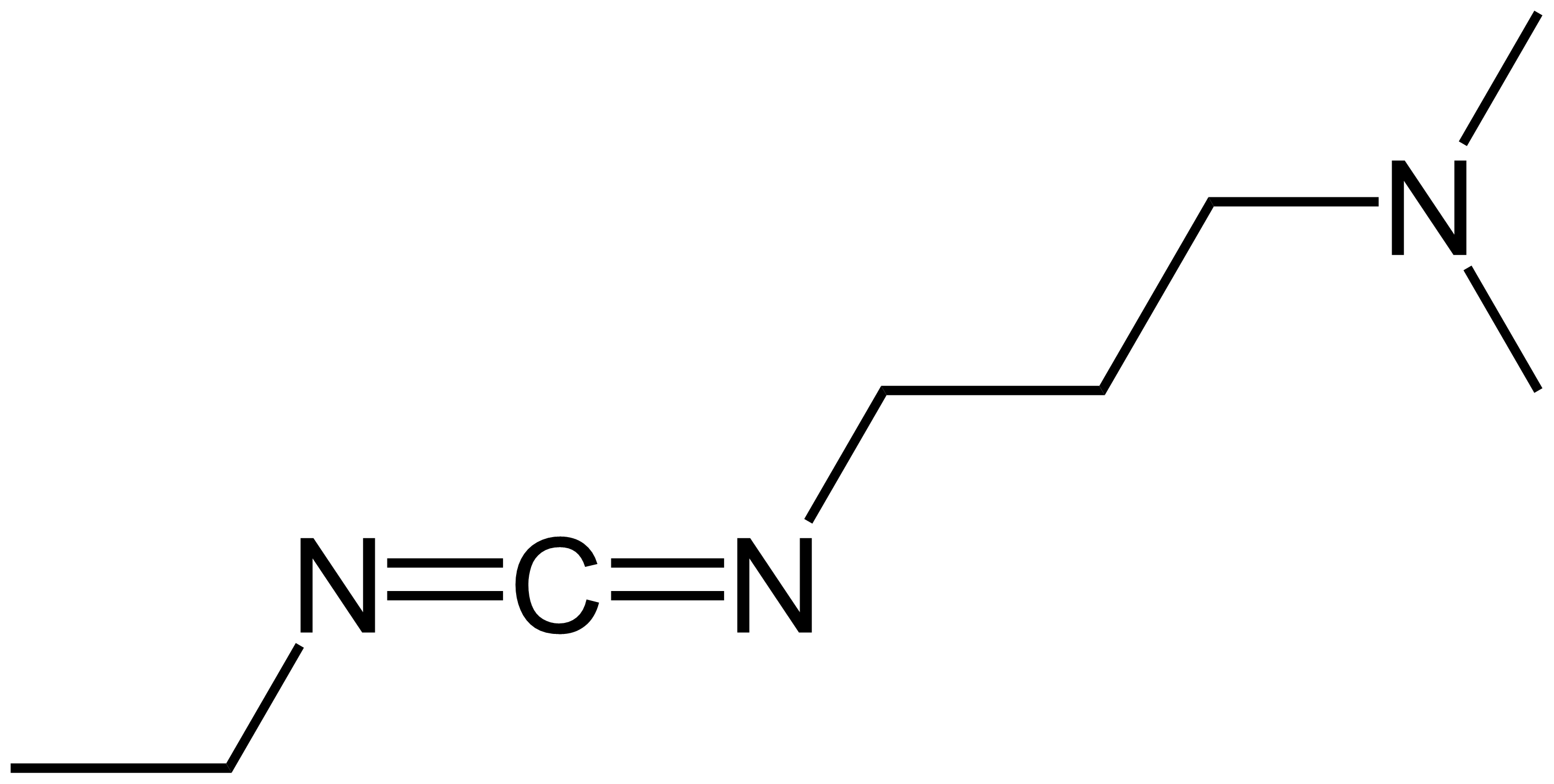 Chemical structure of EDC